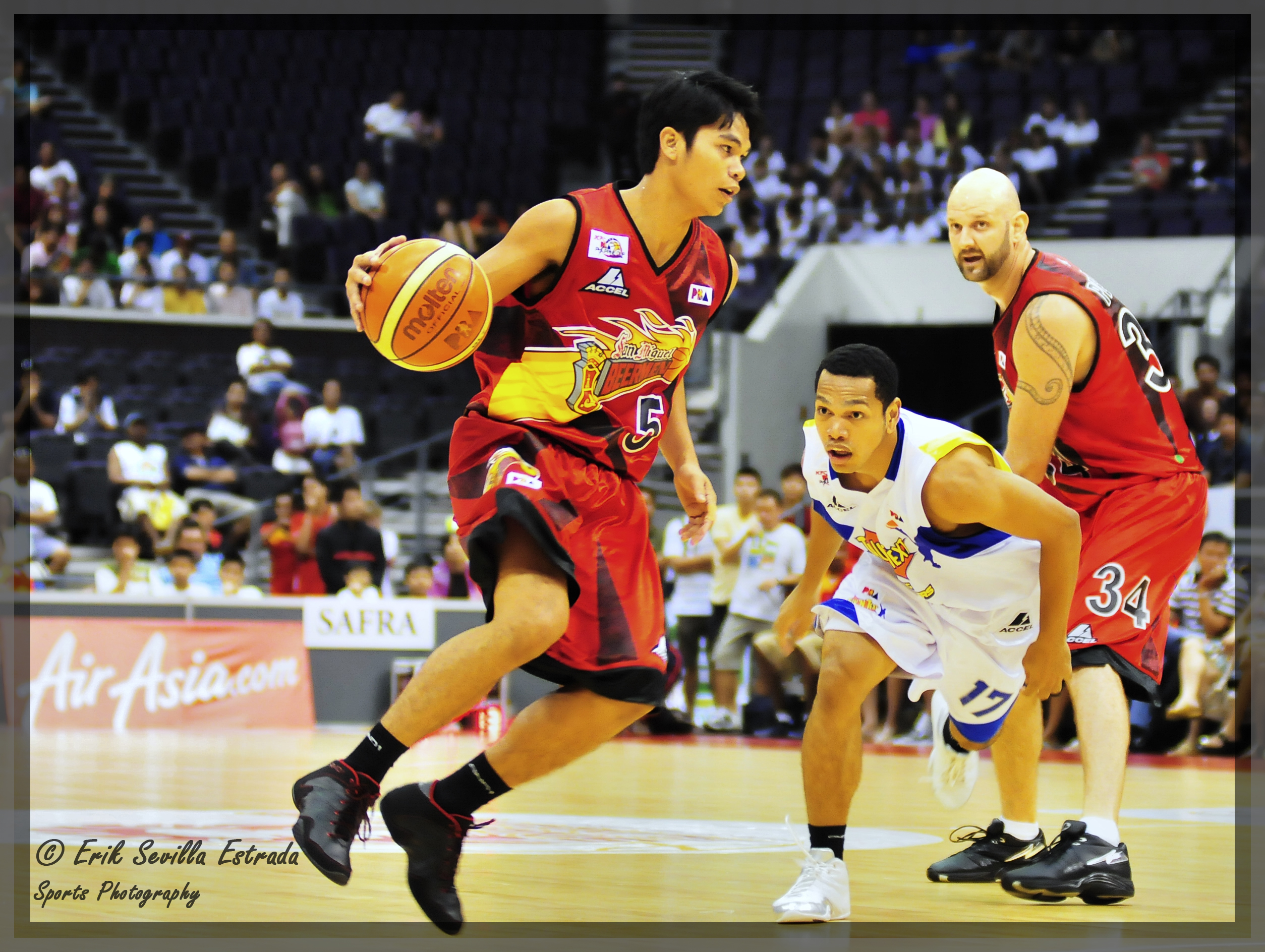 PBA SINGAPORE GAME 2008 Venue : Singapore Indoor Stadium San Miguel Beermen Vs Talk n Text tropang texter